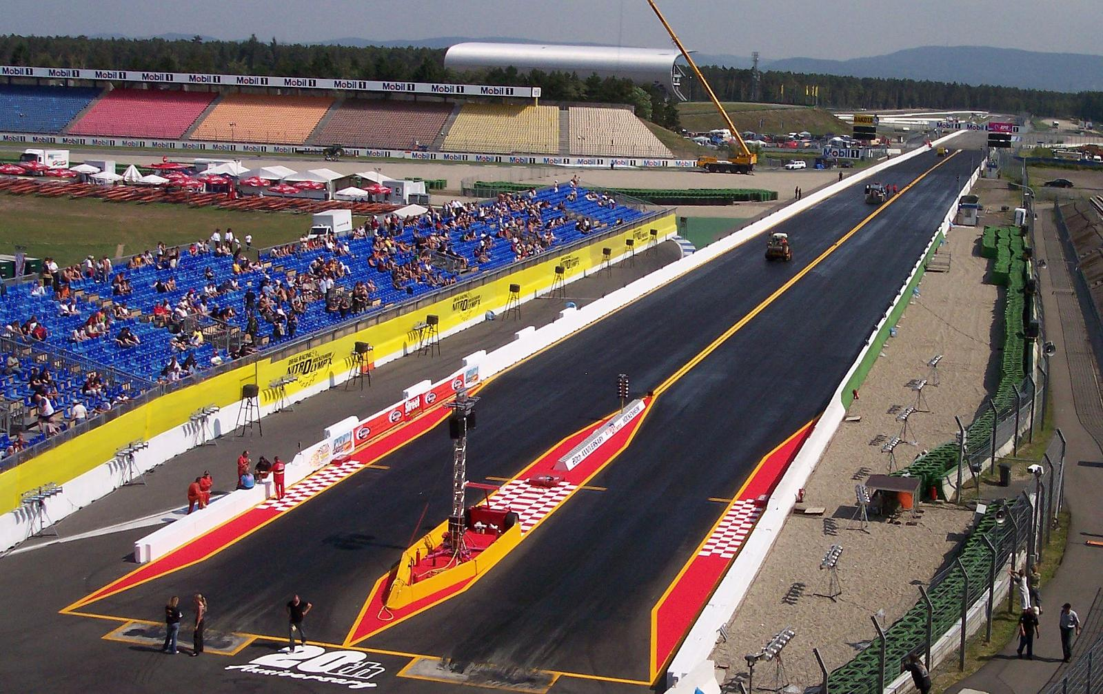 This picture may have usage restrictions -- Dragstrip / Beschleunigungsrennstrecke